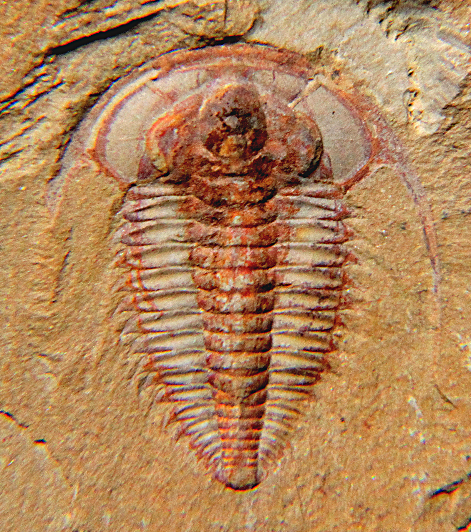 An Eoredlichia intermedia trilobite, Order Redlichiiida, Family Relichiidae, 15mm, collected at the Maotian Shales near ChengJiang, Yunnan, China, from the Lower Cambrian (Atdabanian)